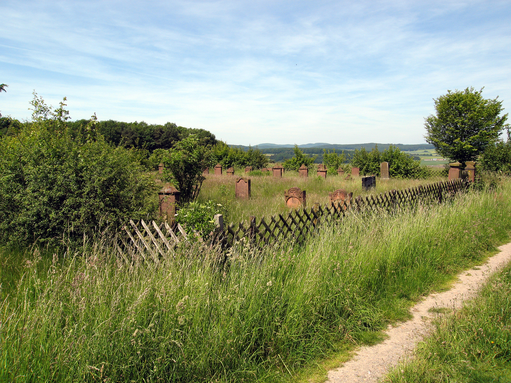 The Jewish cemeteries of Roth